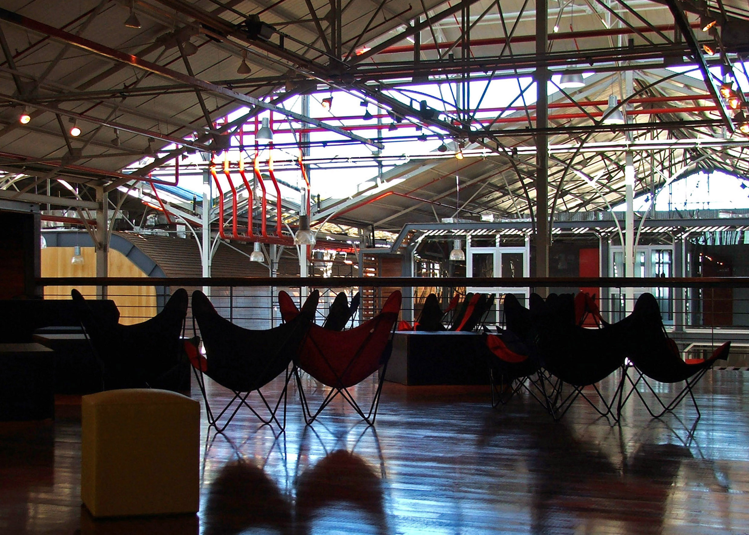 barcos exposicion